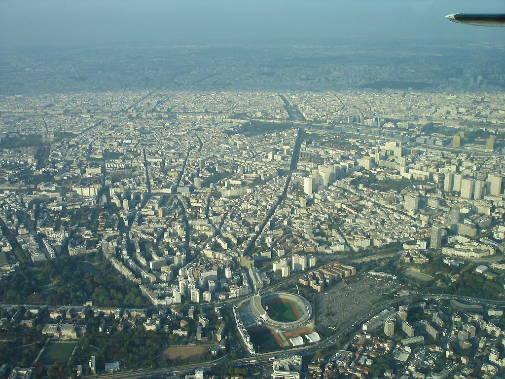 View of the left bank of the Seine in Paris, with the Cité Universitaire and Parc Montsouris on the lower left, and the Charléty Stadium on the right, behind which appear the towers of Chinatown.